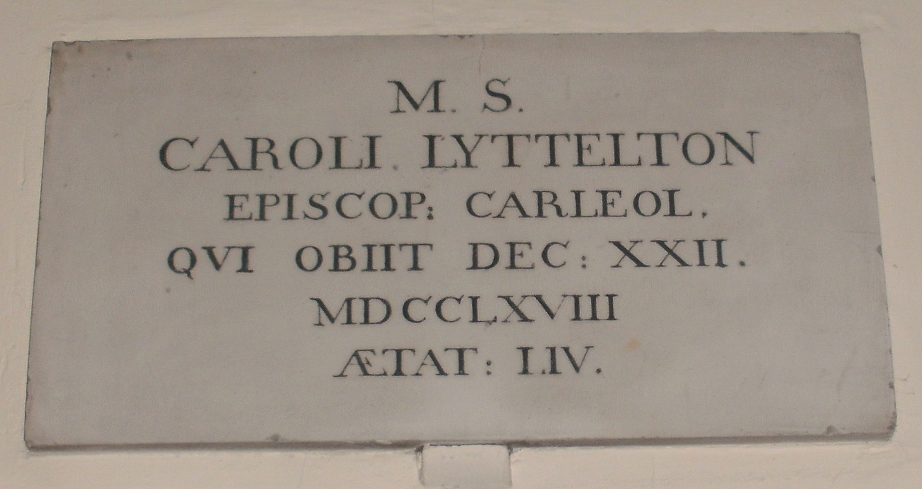 Hagley, Worcestershire, St John the Baptist Church - interior, memorial to Charles Lyttelton (1714–1768), Bishop of Carlisle 1762–1768. He was the third son of Sir Thomas Lyttelton, 4th Baronet, by his wife Christian, daughter of Sir Richard Temple, 3rd Baronet.